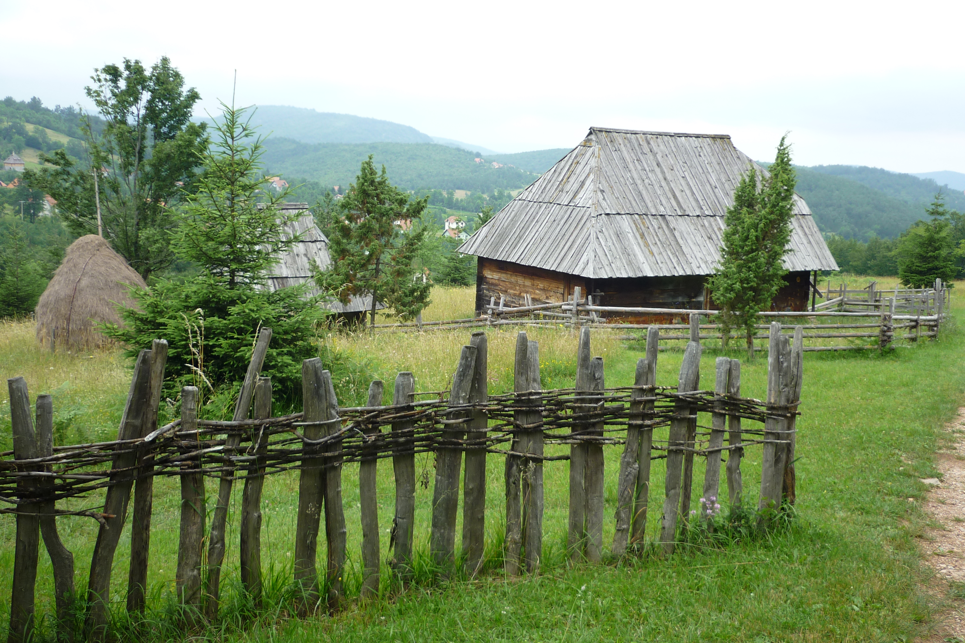 Old village in Sirogojno